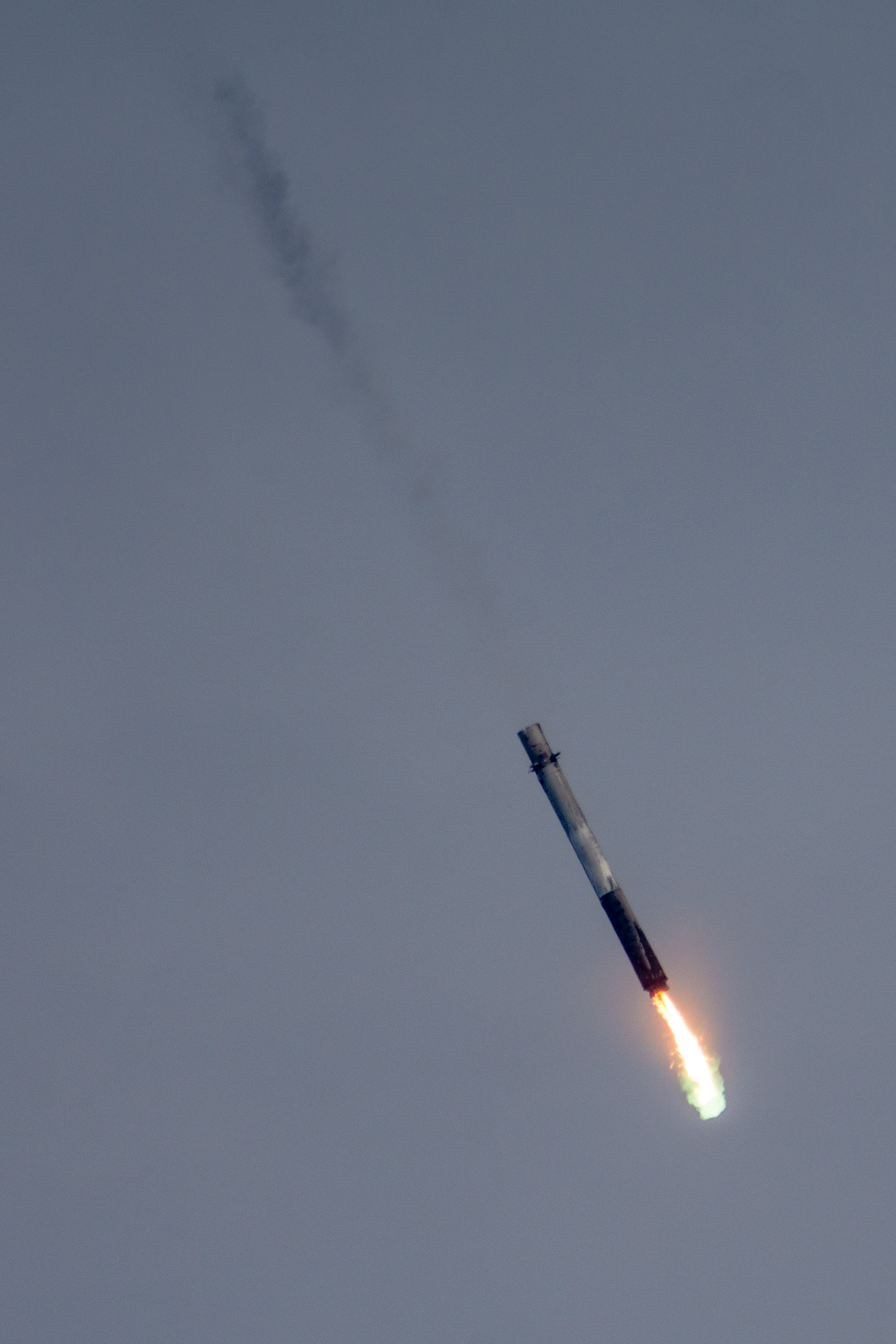 Falcon 9 landing burn from CRS-11